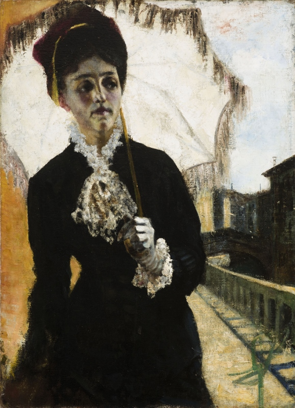 Portrait of the writer Maria Antonietta Torriani, aka Maria Antonietta Torelli Viollier (when she was married), aka Marchesa Colombi (1840-1920), in 1885-1886 by Giovanni Segatini (1858-1899).